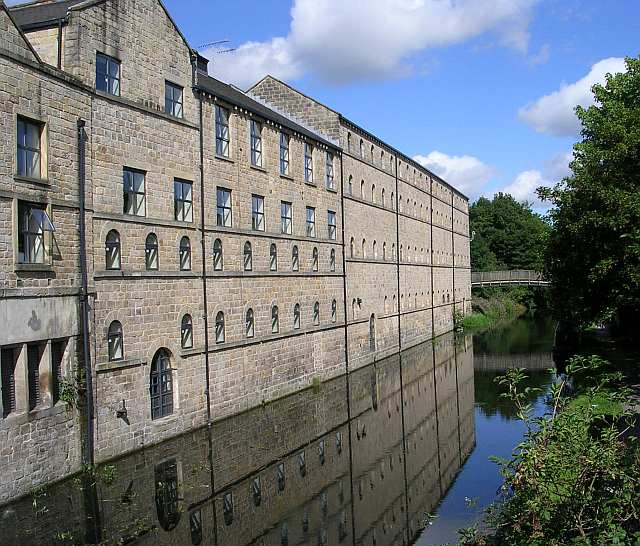 Kirkstall Brewery Residences, Leeds, West Yorkshire. Formerly Kirkstall Brewery; now halls of residence for Leeds Metropolitan University.